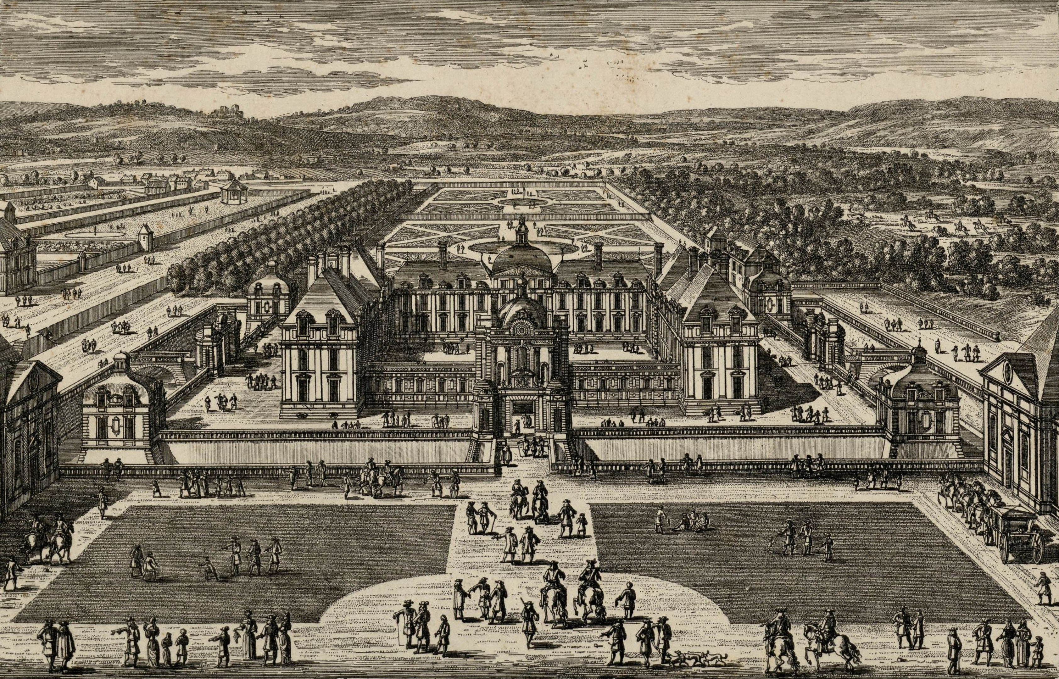 View of the Château de Montceaux